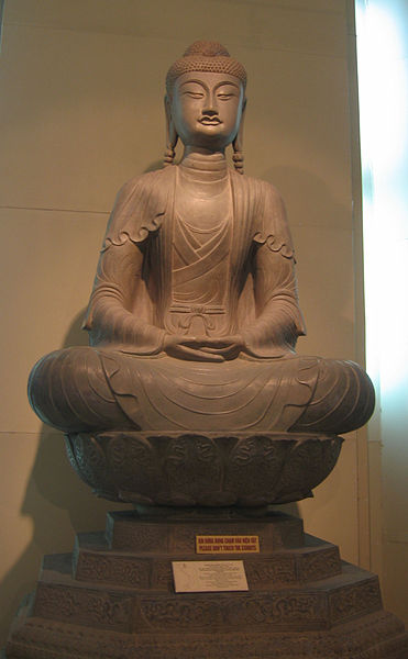 statue of Buddha Amitābha - replica